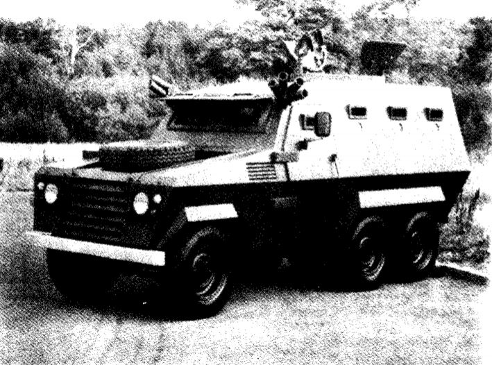 Hotspur armored personnel carrier, Central Intelligence Agency file photo.